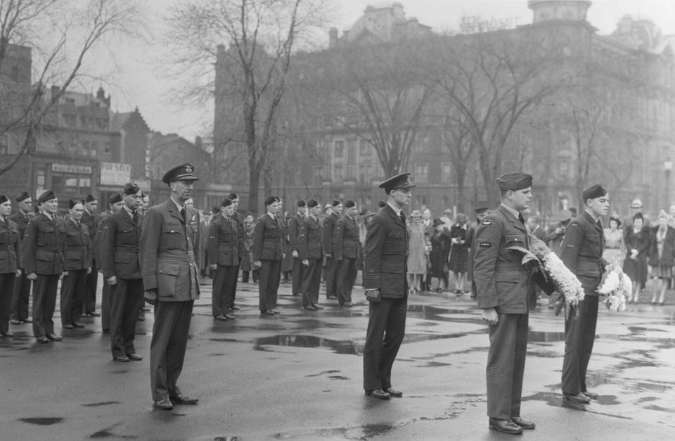 During the celebration of the "Anzac Australian and New Zealand Army Corps Day", a squadron of the Air Force is at attention in front of the memorial to the war of 1914-18 located at Dominion Square (became Canada's place).